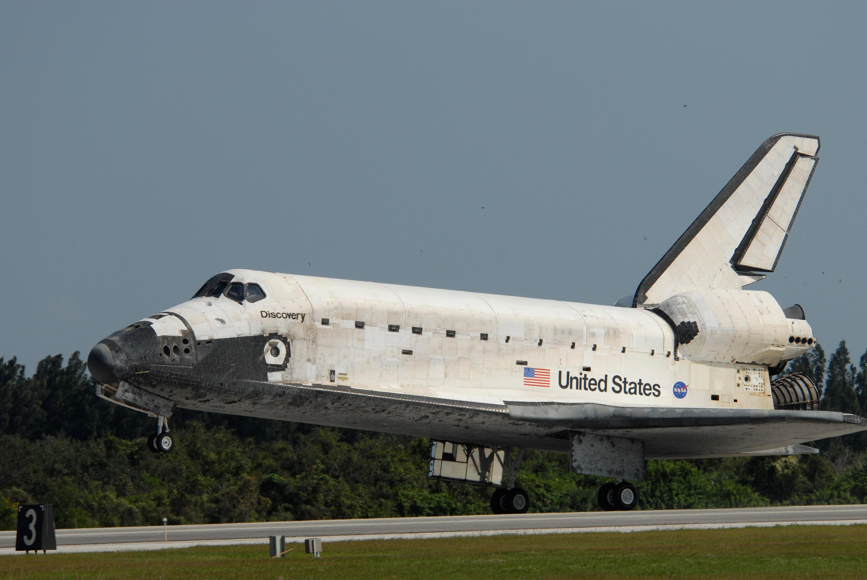 With main gear down on Runway 33, space shuttle Discovery nears nose gear touchdown on the Shuttle Landing Facility at NASA's Kennedy Space Center. Completing mission STS-120, main gear touchdown was 1:01:16 p.m. Wheel stop was at 1:02:07 p.m. Mission elapsed time was 15 days, 2 hours, 24 minutes and 2 seconds.